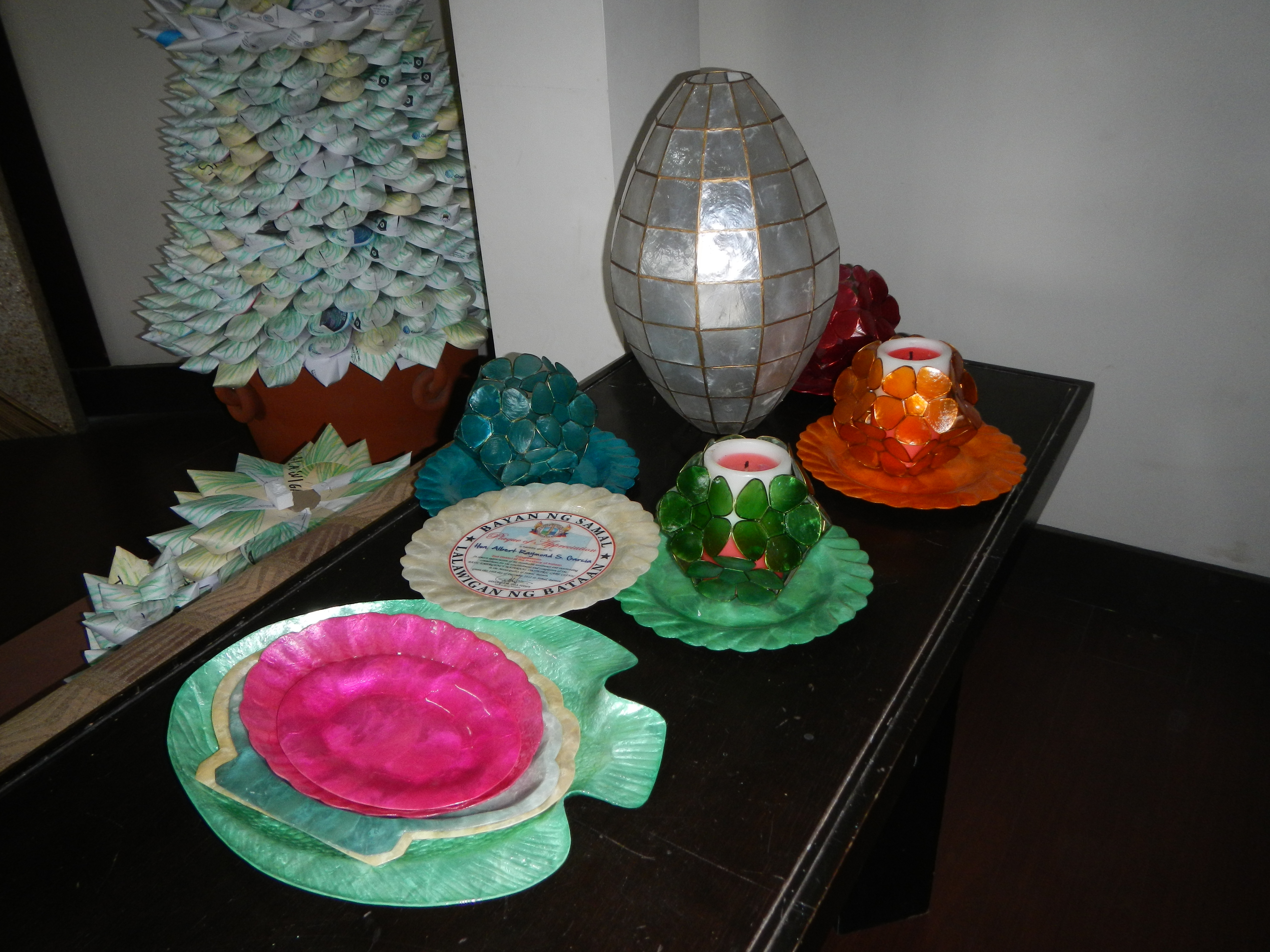 Samal, Bataan[1][2]Eastern side of Bataan, Samal is bounded by the municipalities of Orani, Abucay, Mt. Natib and Manila Bay. Its total population is 45,677 with main products: palay, corn, vegetable, fruits, rootcrops, coffee and cutflowers, livestock, poultry and aquatic resources such as shellfish, crabs, prawns, shrimps and different species of fish. Coordinates: 14°46'3"N 120°29'8"E[3][4][5]